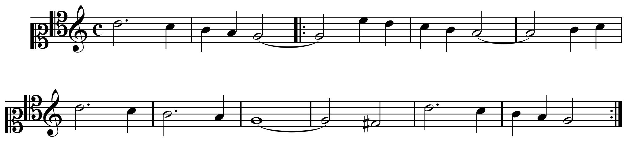 Three voice puzzle canon, each voice starting a measure later and a fifth lower. The transposition interval is indicated by the multiple clefs, the time interval is the enigma.